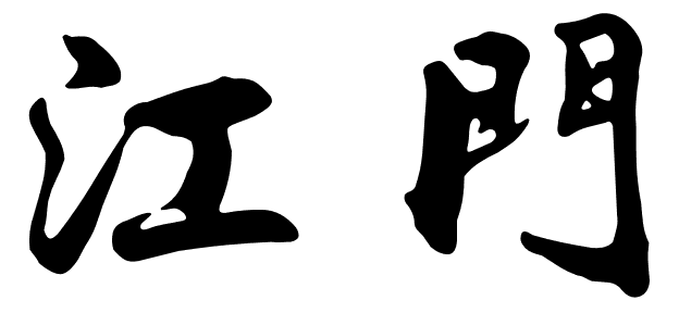 Jiangmen in Chinese